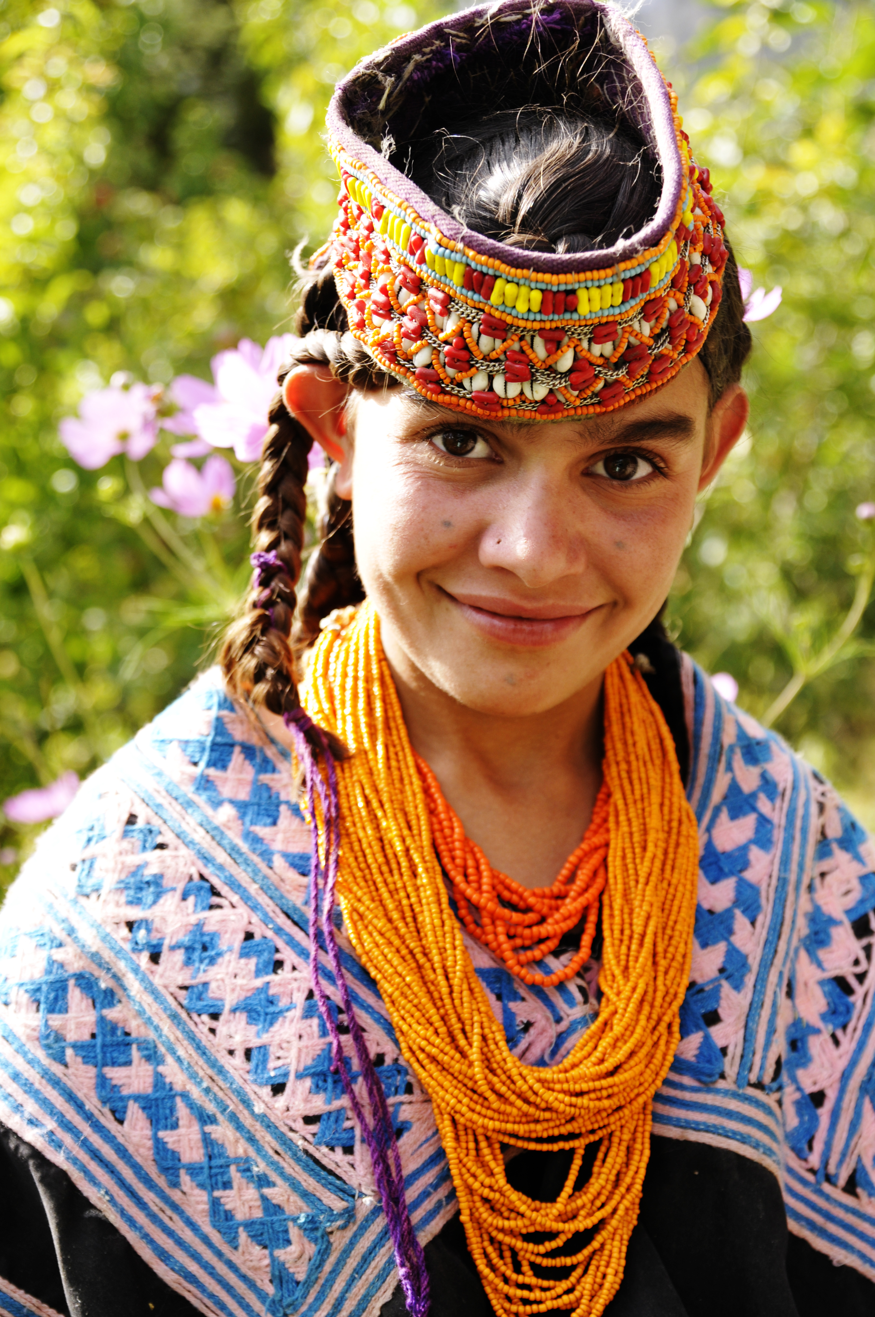 'Kalash flower girl' (Kalash people live in the Kalash Valleys in Chitral, Khyber-Pakhtunkhwa, Pakistan)